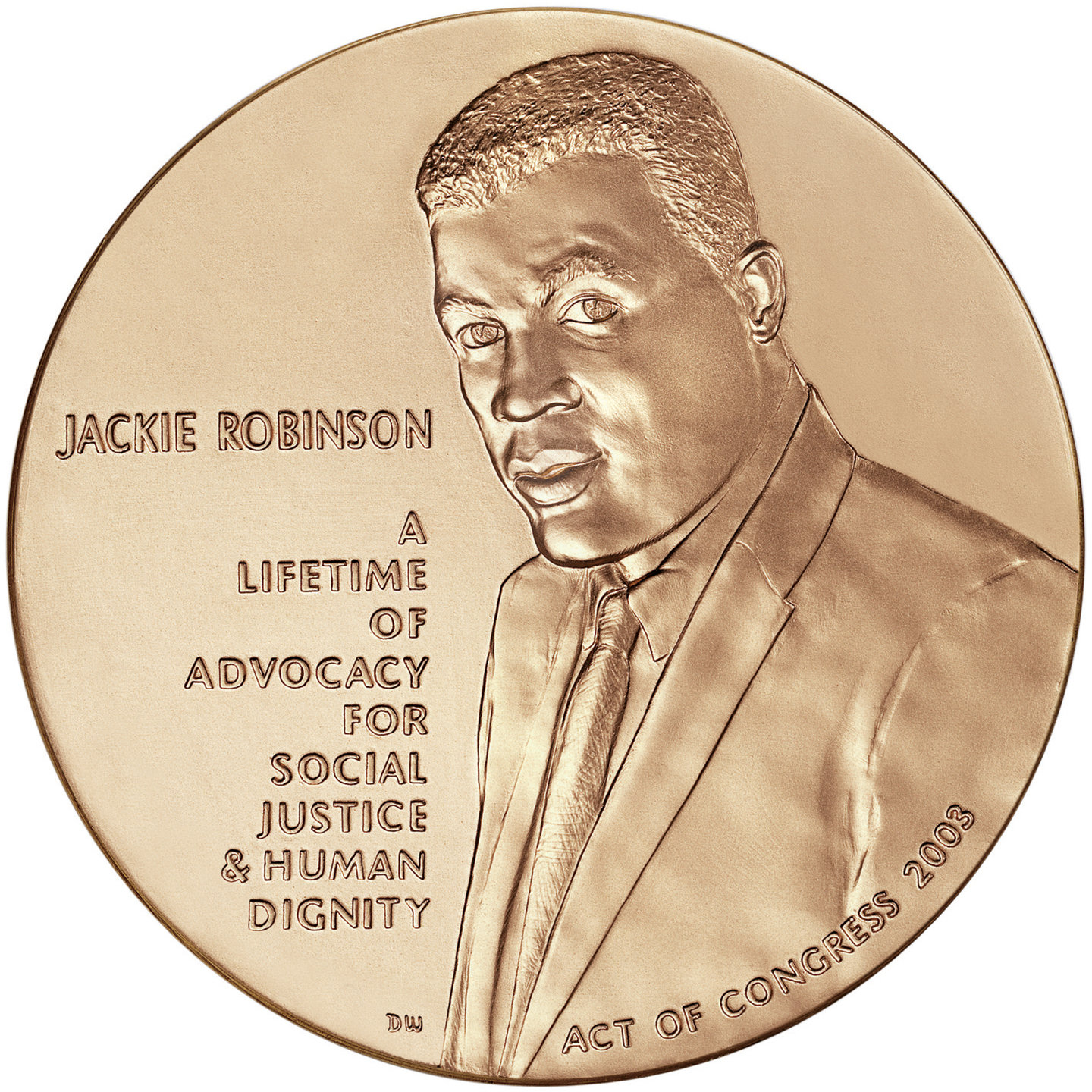 Congressional Gold Medal awarded to Jackie Robinson